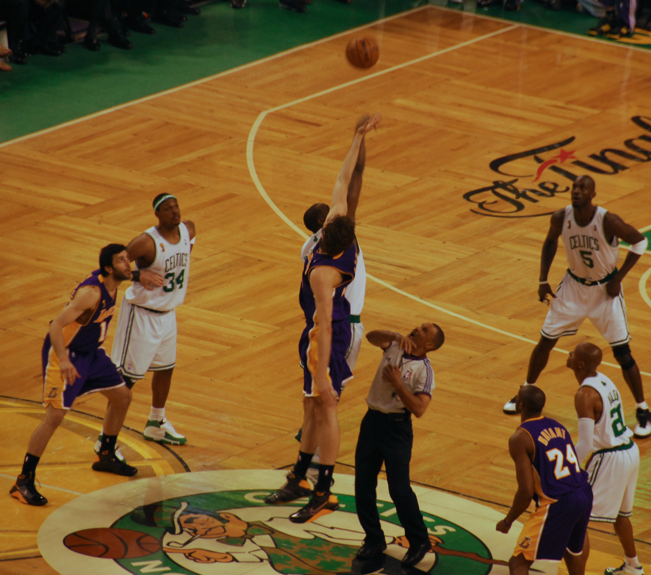 The opening tipoff of Game 2 of the 2008 NBA Finals between the Boston Celtics and the Los Angeles Lakers at the TD Garden.